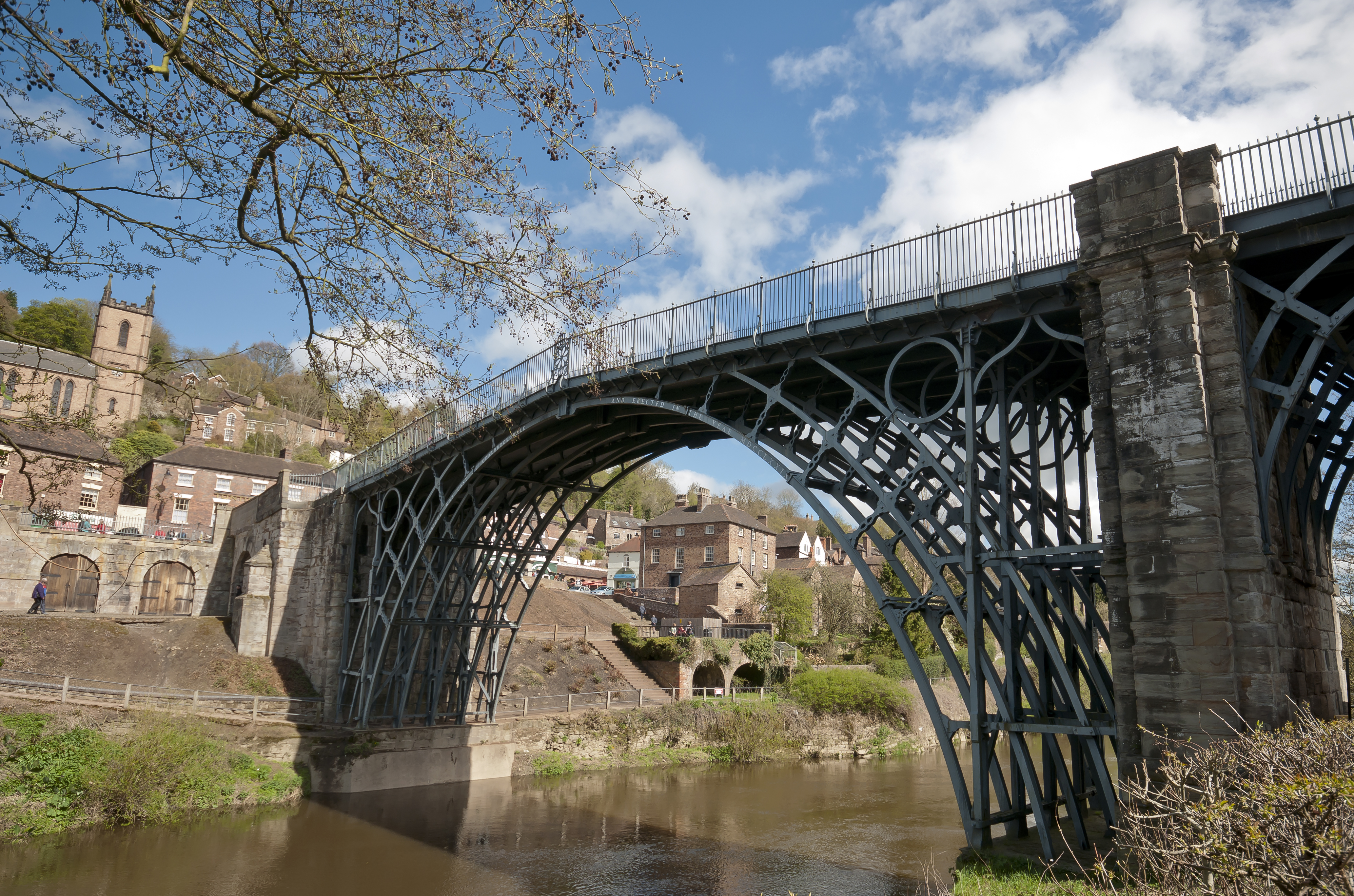 The Iron Bridge, Shropshire. 'The first bridge to be built of iron in the world in 1779. A UNESCO World Heritage Site'